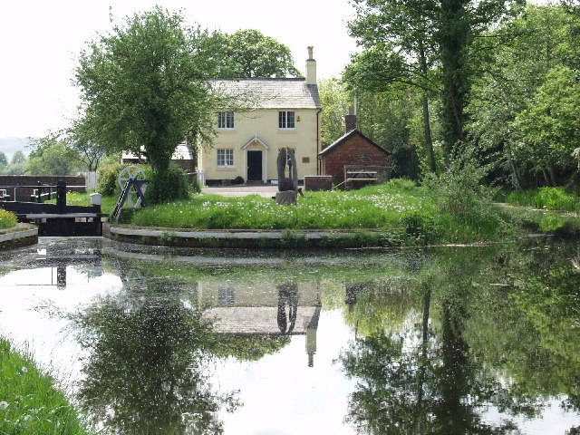 Lock House at Burgedin Lock on the Montgomery Canal. This is the first lock on an 11-mile restored section of the Montgomery Canal. It is detached from the canal network and suffers from a lack of boat traffic to control weeds.